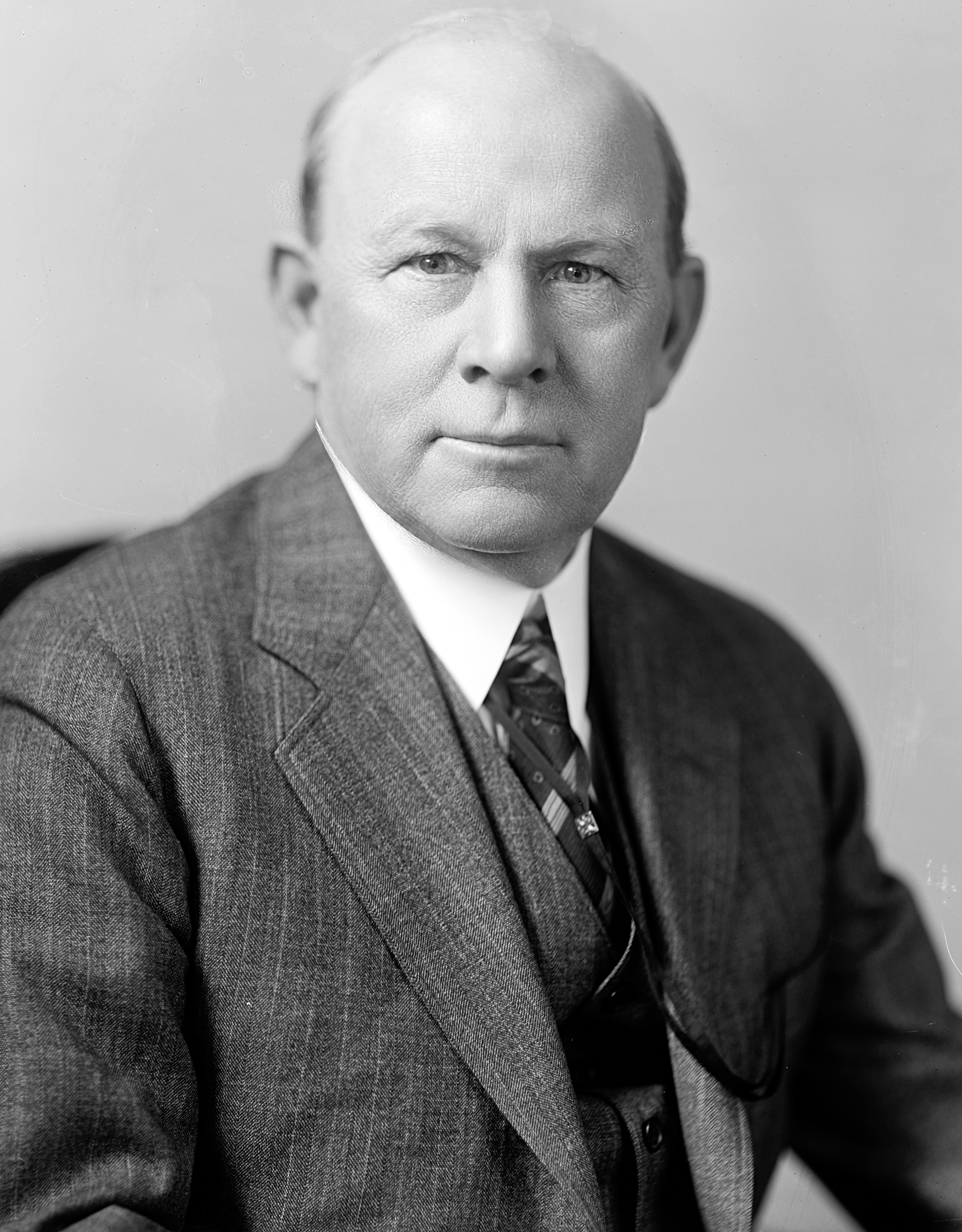 Randolph Perkins, US Representative from New Jersey